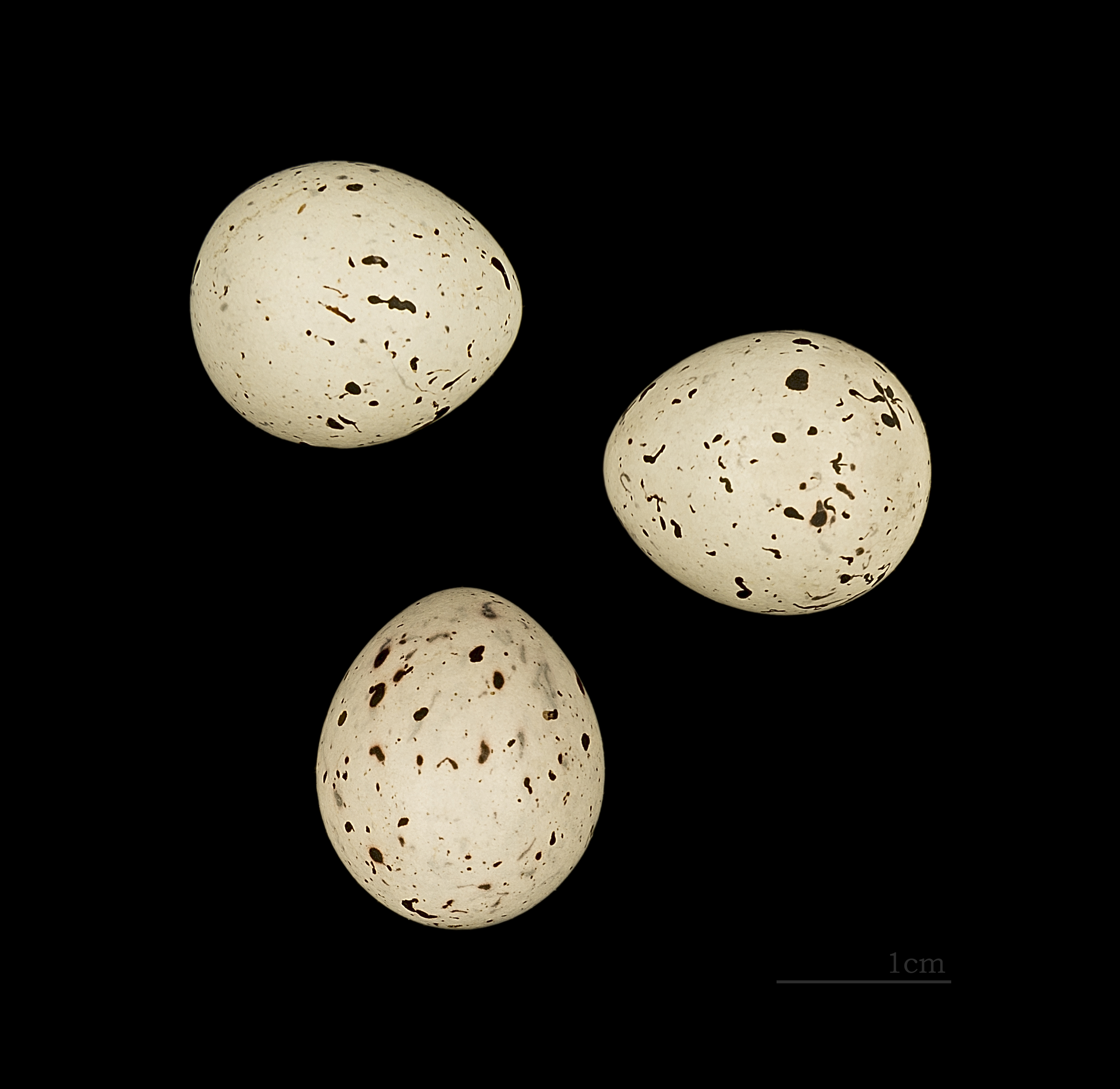 Egg of Pallas's Reed Bunting. Collection of Jacques Perrin de Brichambaut.